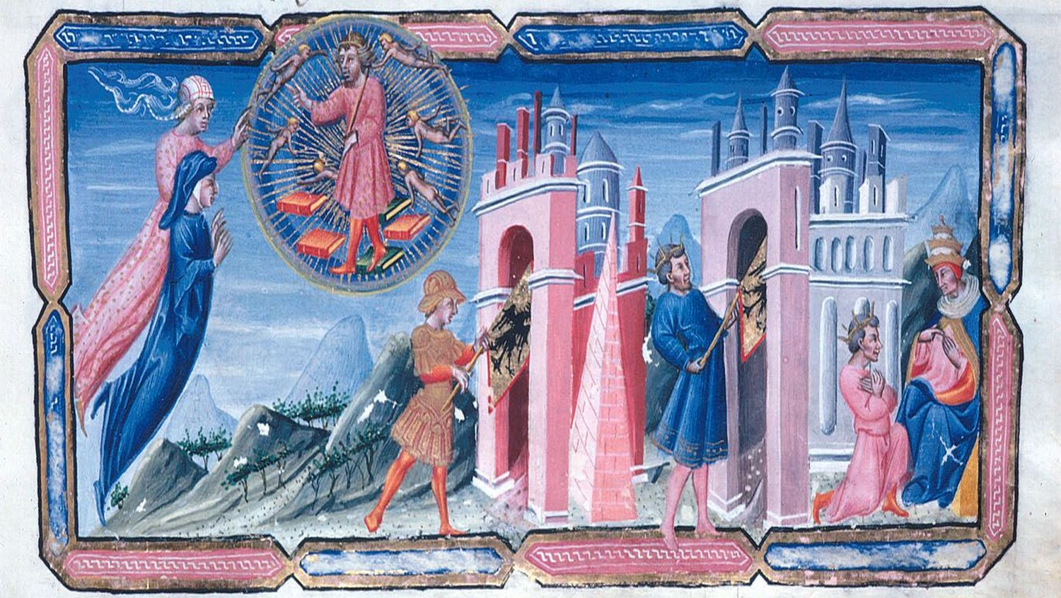 Justinian recalls the history of the Roman Empire